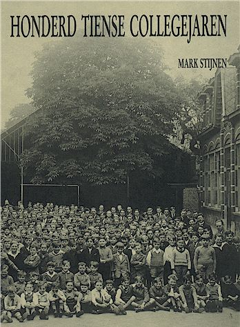 Tienen college pupils and teachers on the playground.